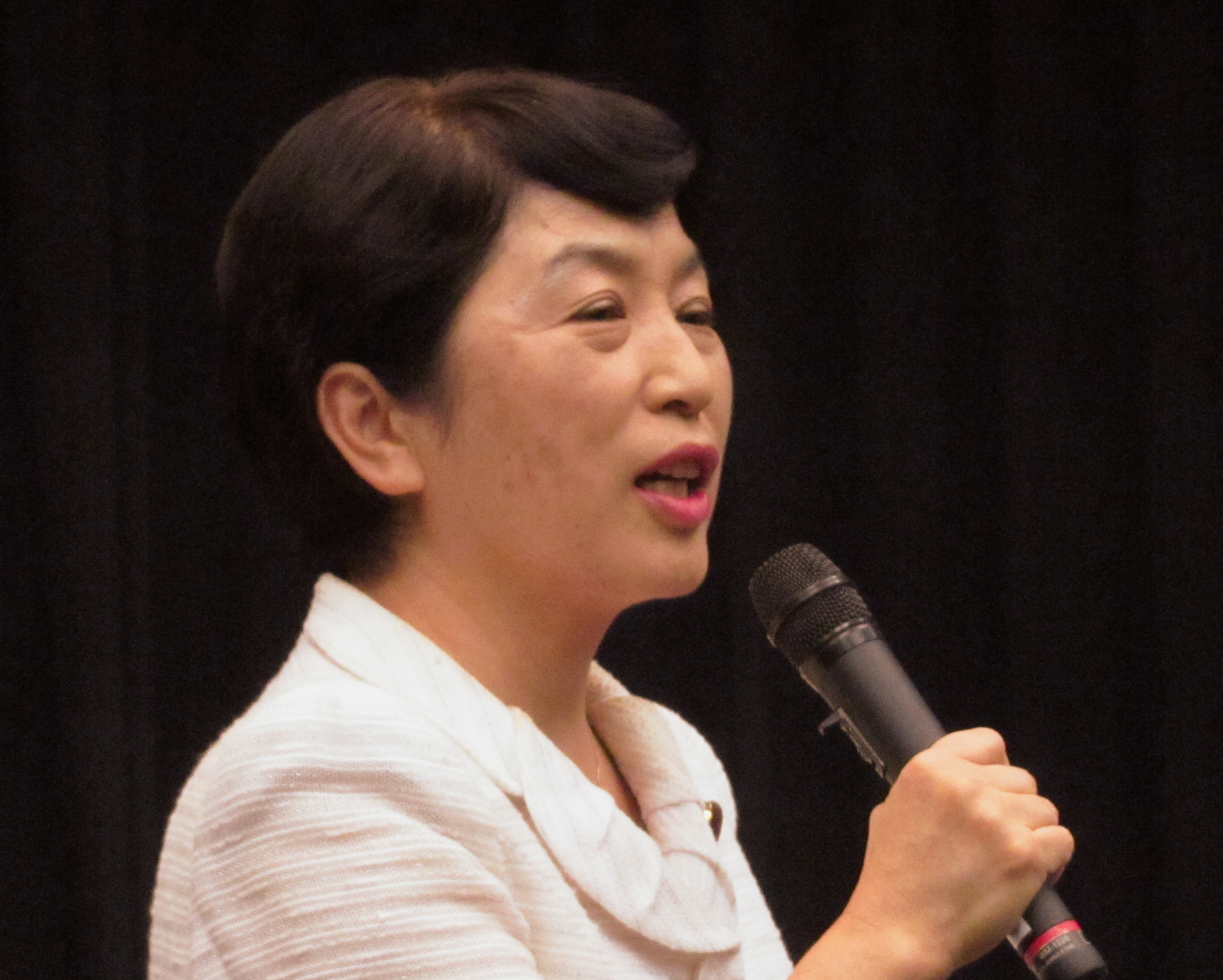 Former Minister of State for Consumer Affairs and Food Safety, Social Affairs, and Gender Equality Mizuho Fukushima.